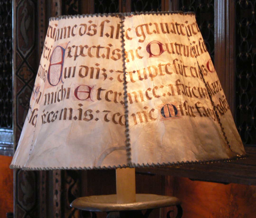 Hearst Castle: parchment lampshade